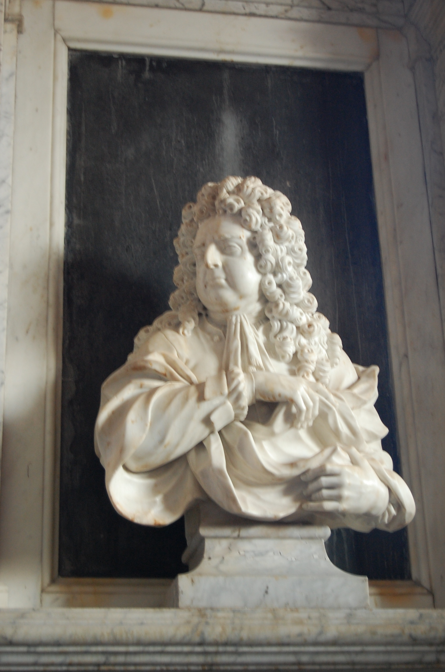 William Campion (d.1702) of Combwell was grandson of William and Rachel Campion. His father, also William was killed in the siege of Colchester aged 34. William married Frances Glyn, they had issue 9 children. He wears a fine wig on this carving.